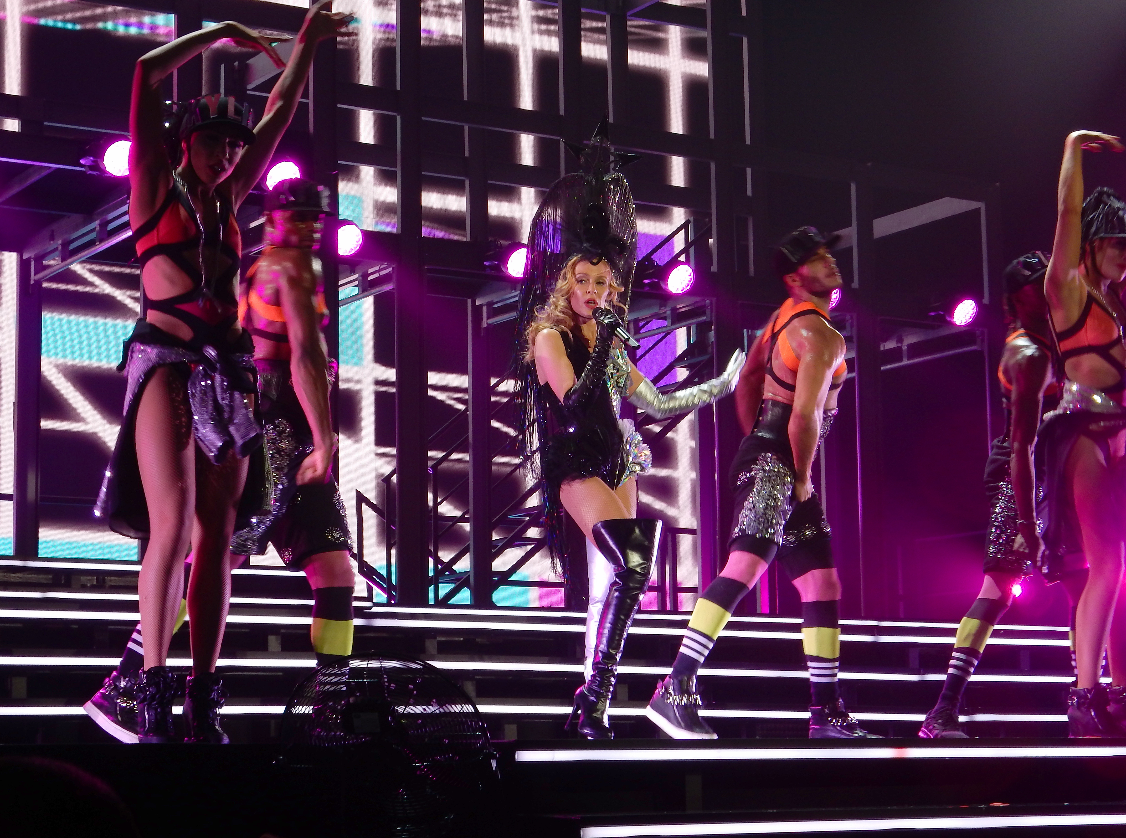 Kylie Minogue - Kiss Me Once Tour - Manchester - 26.09.14. - (111)